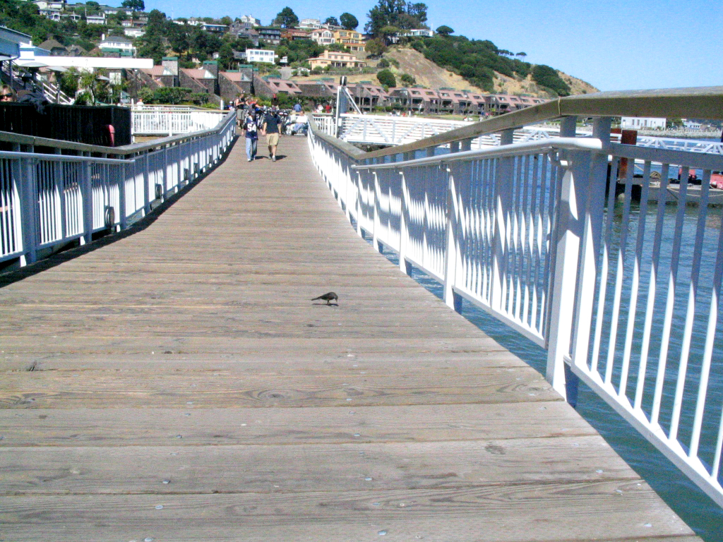 Tiburon is the nearest mainland point to Angel Island and a regular ferry service connects to the island.